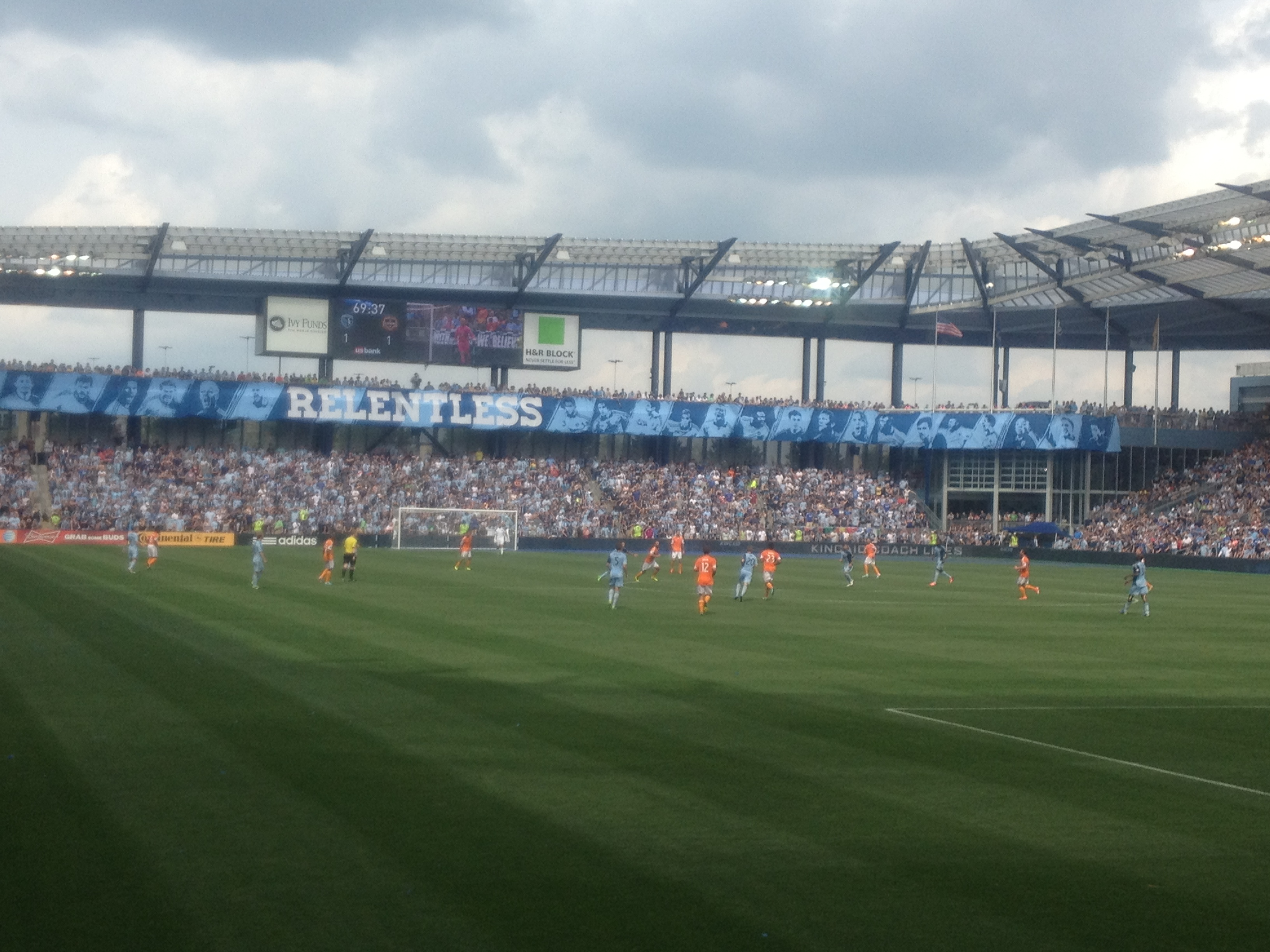 Sporting KC hosted Houston Dynamo on May 26, 2013 at Sporting Park in Kansas City, Kansas.